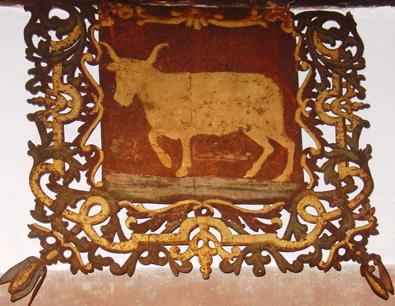 Old German Inn Sign